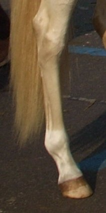 Marking at a leg of a perlino Akhal teke